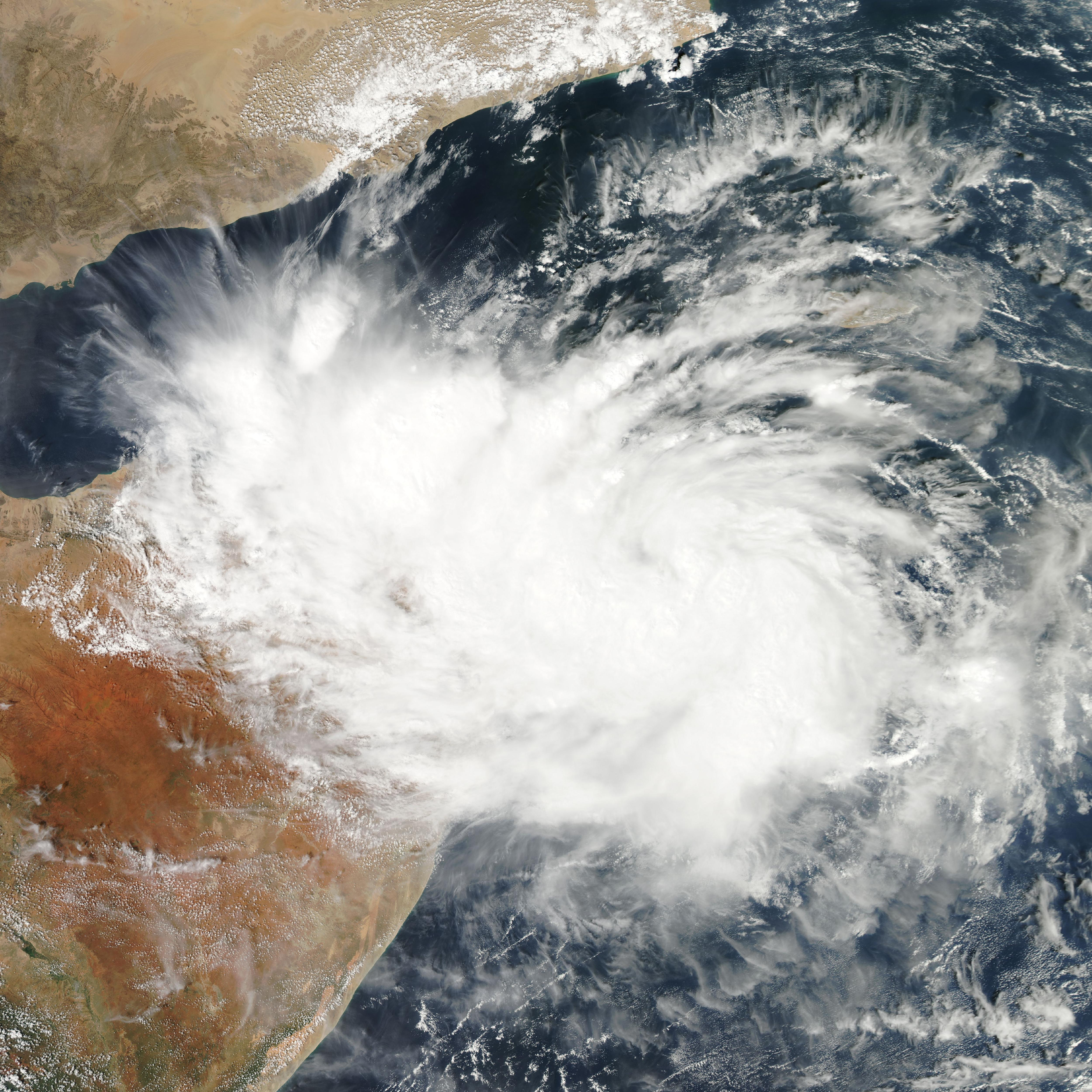 Cyclonic Storm Murjan, just after peak intensity with a pressure of 1000 hPa over the Arabian Sea on 25 October 2012. Murjan was nearing landfall over the Somali coast when the image was taken.